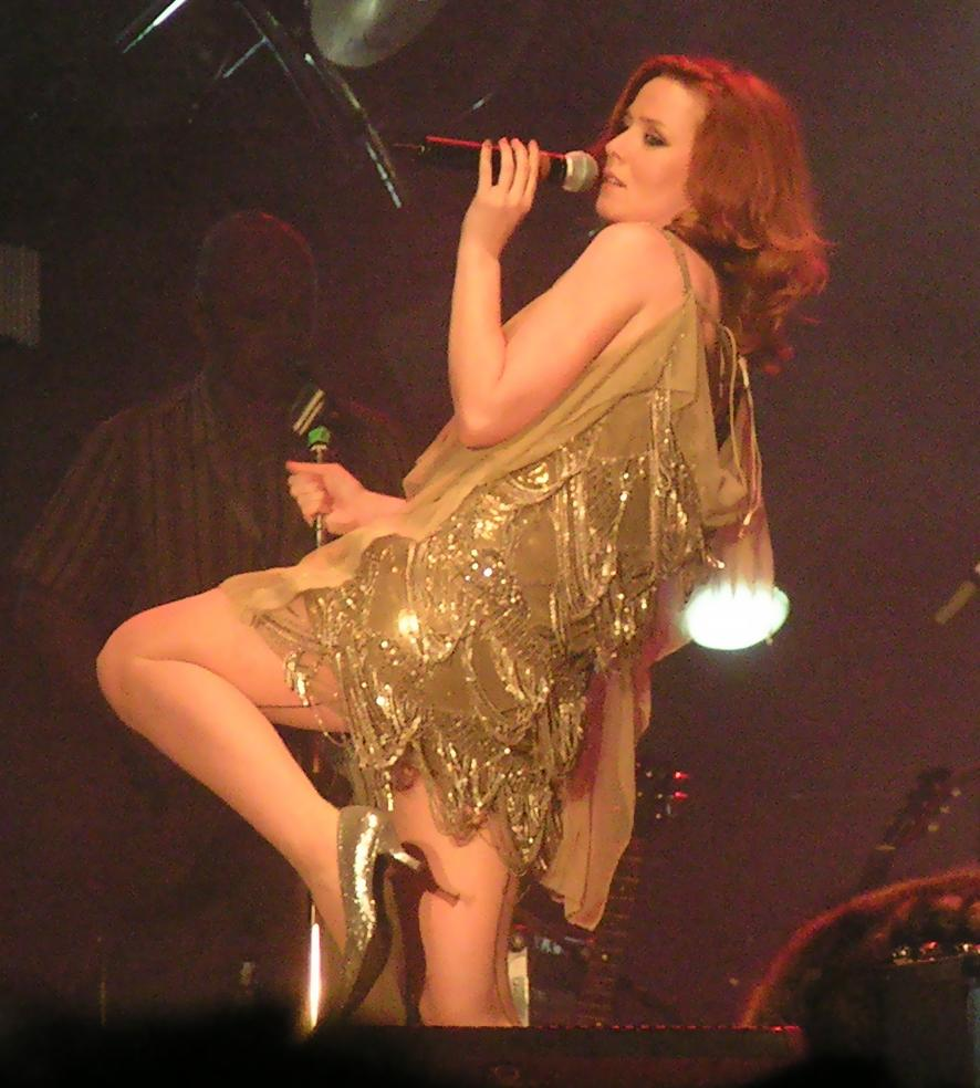 Róisín Murphy at the Orange Music Experience Festival, Haifa